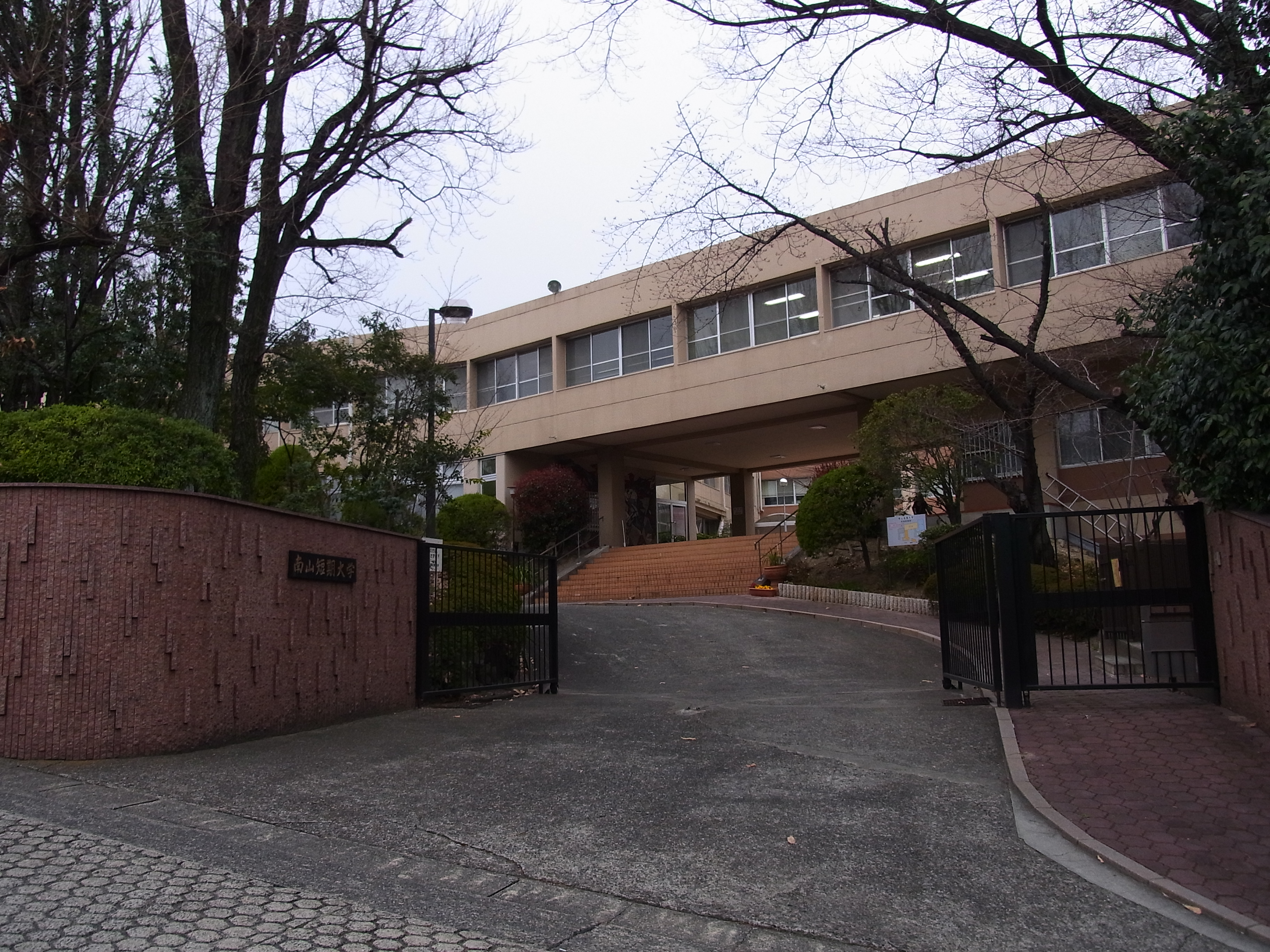 Nanzan Junior College in Showa-ku Ward, Nagoya.